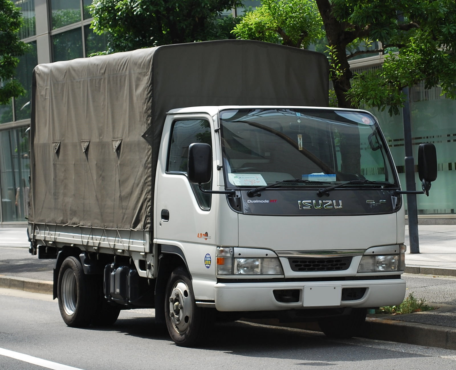 5th generation Isuzu Elf (2002/6 - )